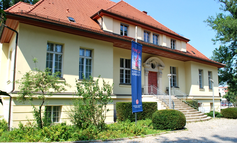 Seat of the Brandenburg State Office for Political Education